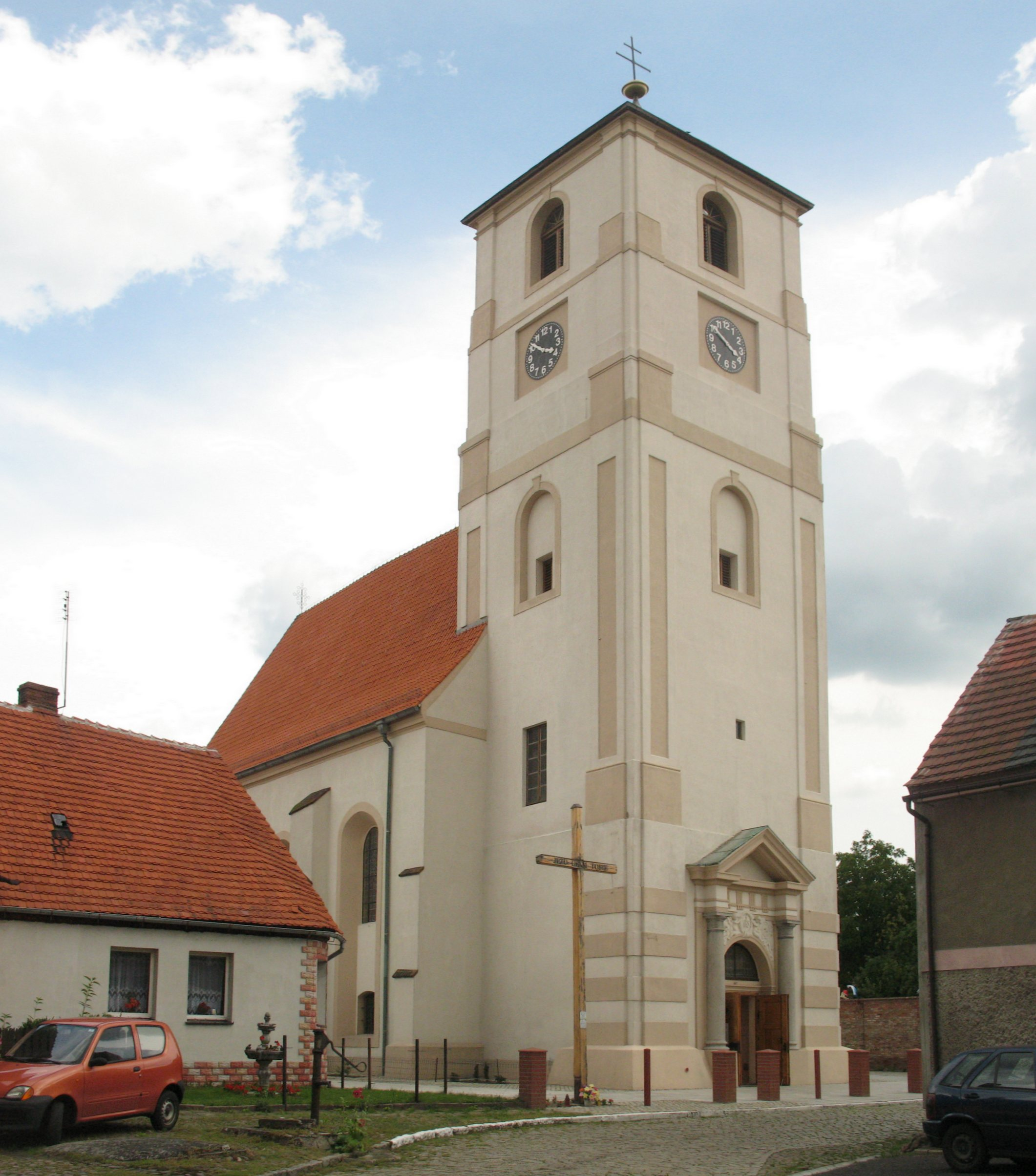 Otyń, Poland. The Catholic church